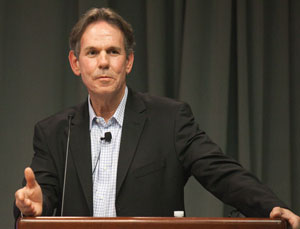 Thomas Keller giving at talk in Mountain View, CA